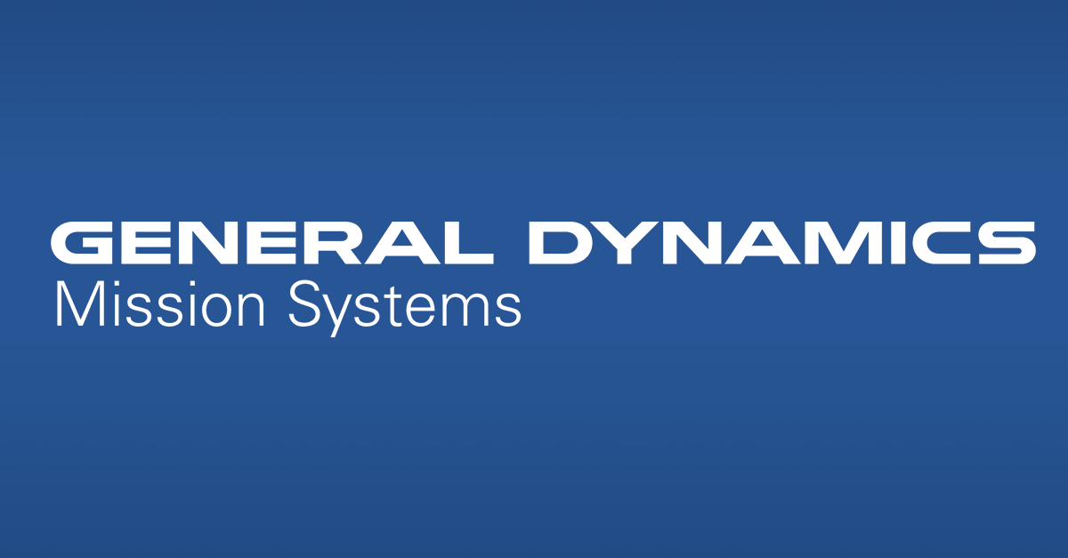 General Dynamics Mission Systems Logo on Blue Background